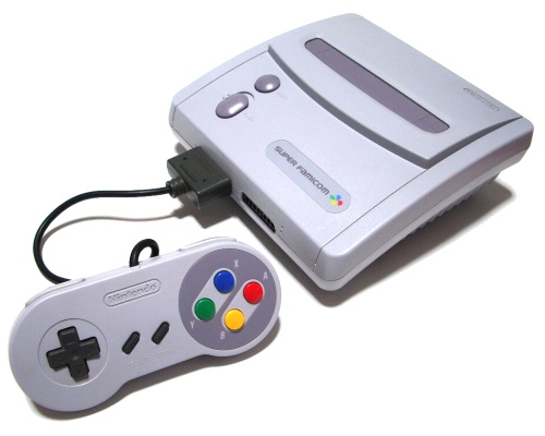 Super Famicom Jr. (SHVC-101) with controller (SNS-102).